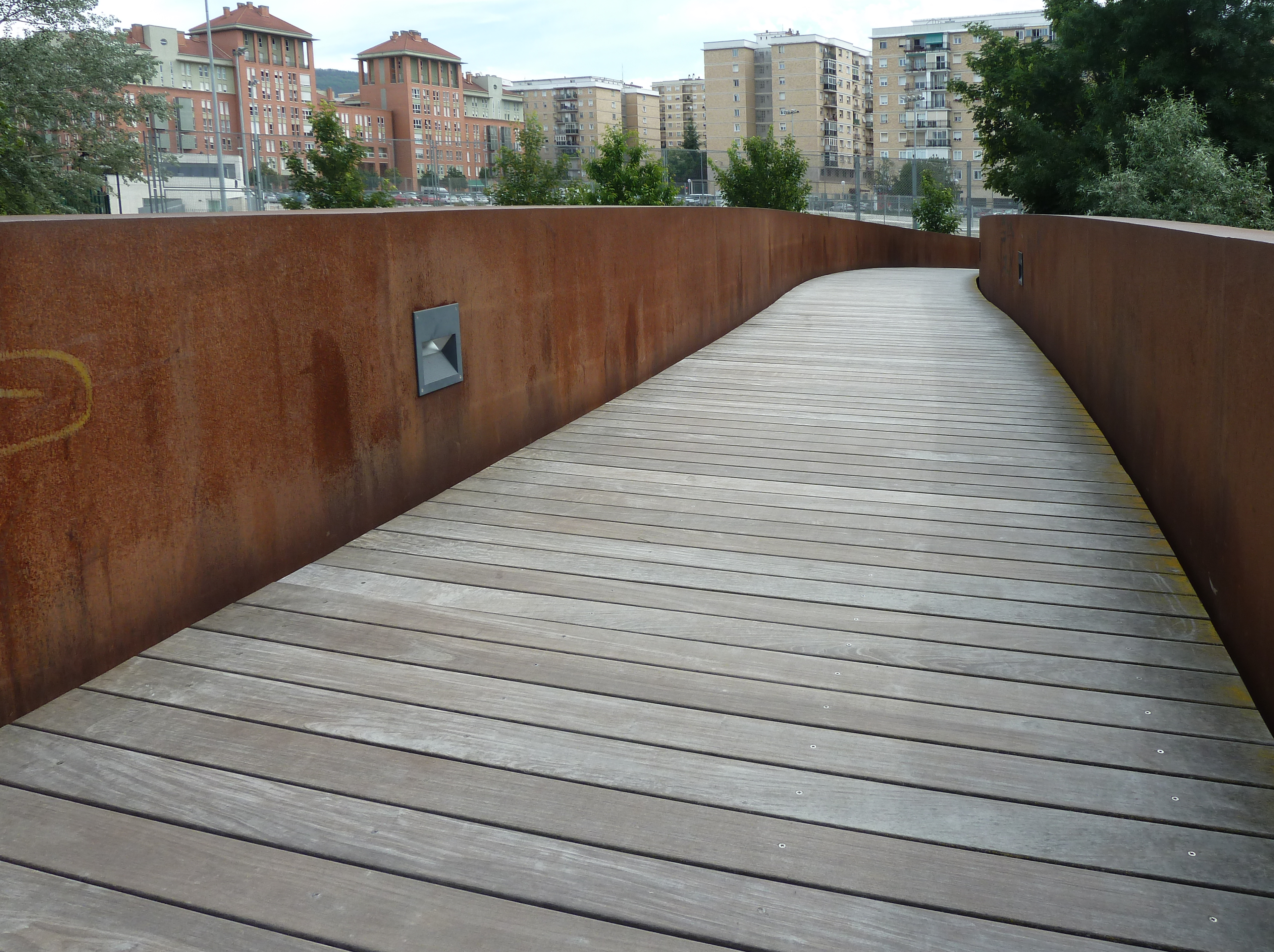 Over the Arga River, halfway between the bridges of Miluce and San Jorge, is located this bridge which is 110 meters long and looks sculptural mainly due to the shape and its curved path and because of its materials.